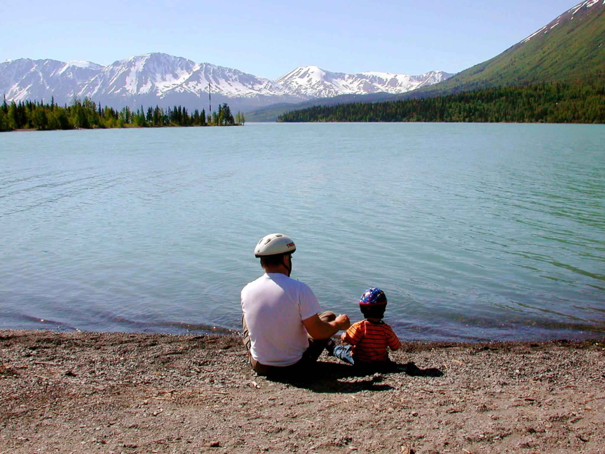 Image title: Fathers day father with kid on lake Image from Public domain images website